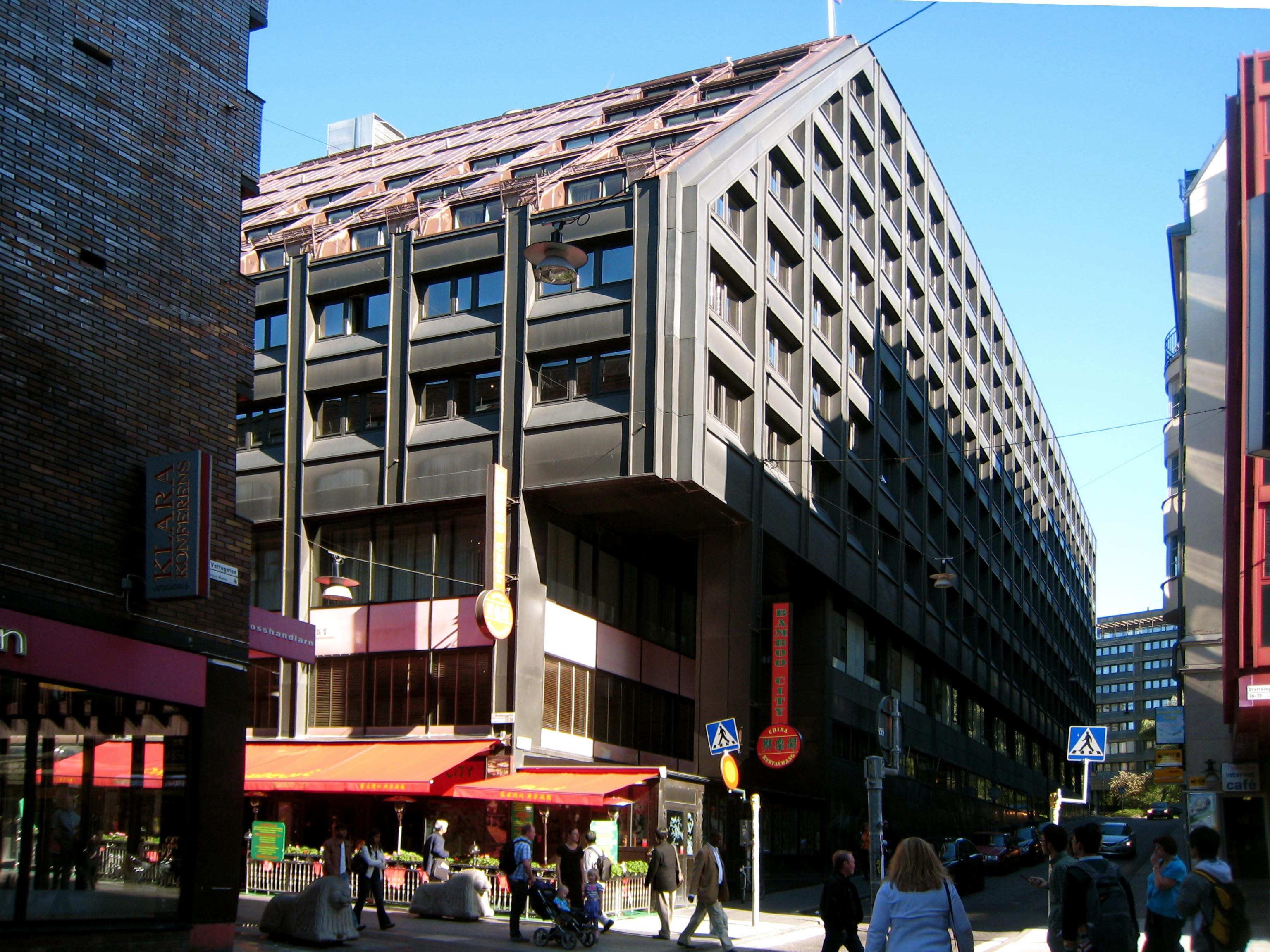 Hotel Sergel Plaza